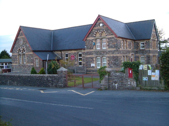 Broadwoodwidger Primary School. A Victorian building at Ivyhouse Cross, at least 3 miles from the village it serves.